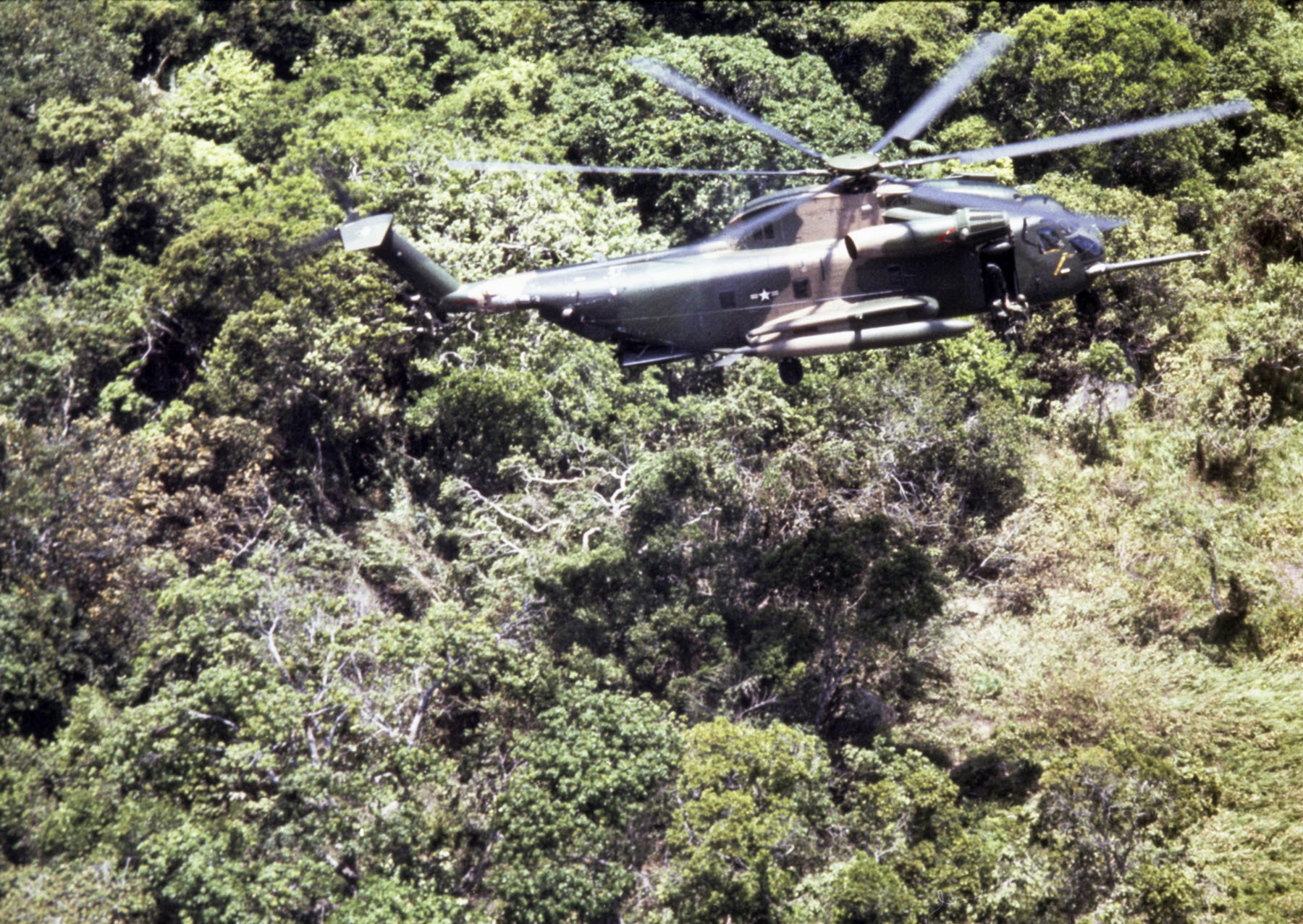 A U.S. Air Force Sikorsky HH-53C Super Jolly Green Giant is hoisting a man into the side door from the jungle below.